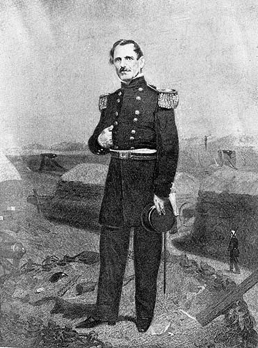 James Shields, American politician and U.S. Army general who is the only person in United States history to serve as a U.S. Senator for three different states. source (portrait comes from 19th century engraving)